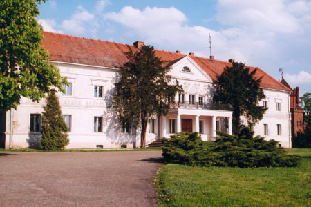 Taczanow Palace, Taczanów Drugi, Poland